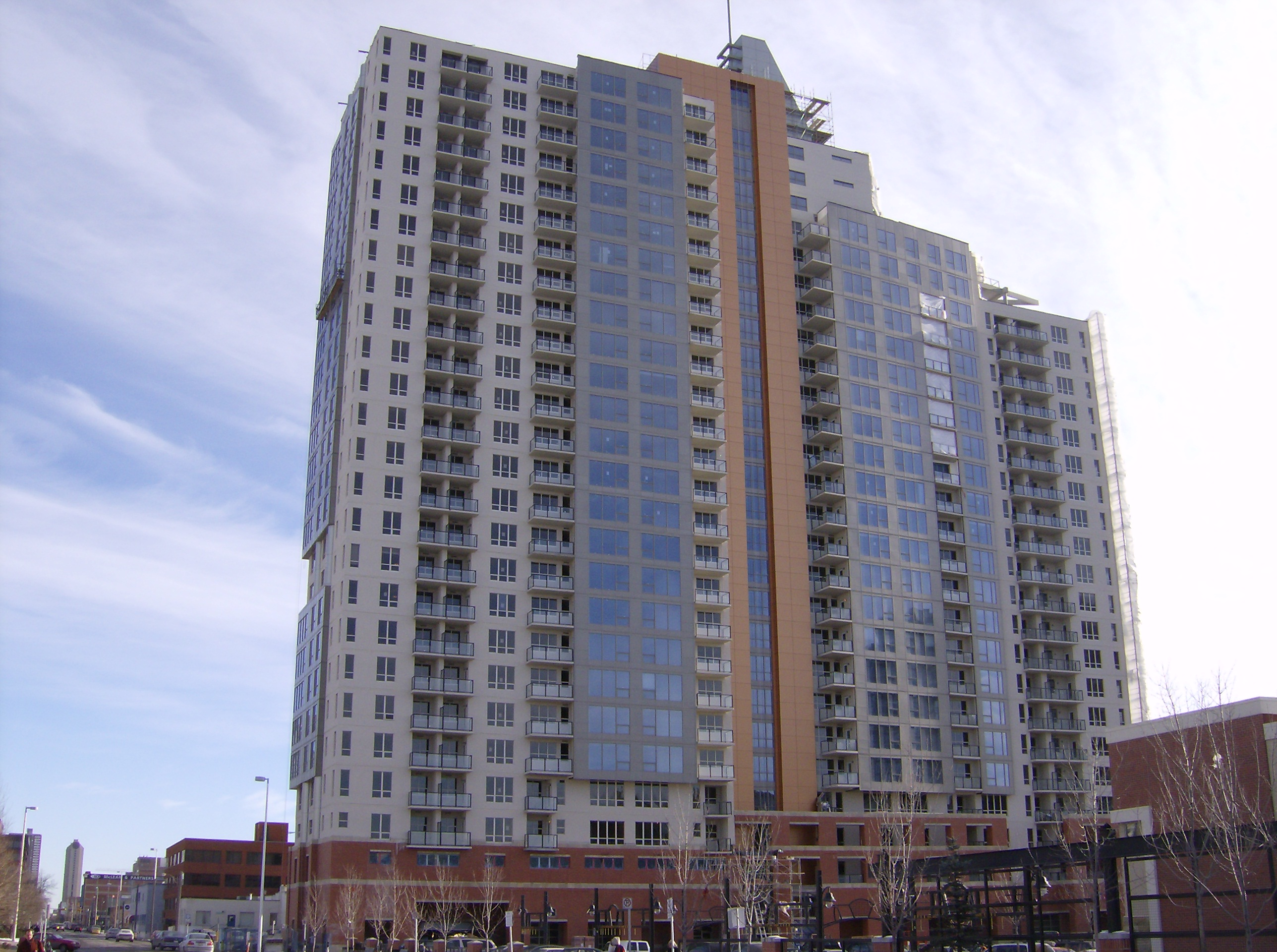 Vantage Pointe is a 26 floor condominium apartment building, located at 1053 10 Street SW, Calgary, Alberta, Canada. This is the backside of the building. North is roughly to the left. At the time of this photo, the building was still partly under construction, and partly occuppied.